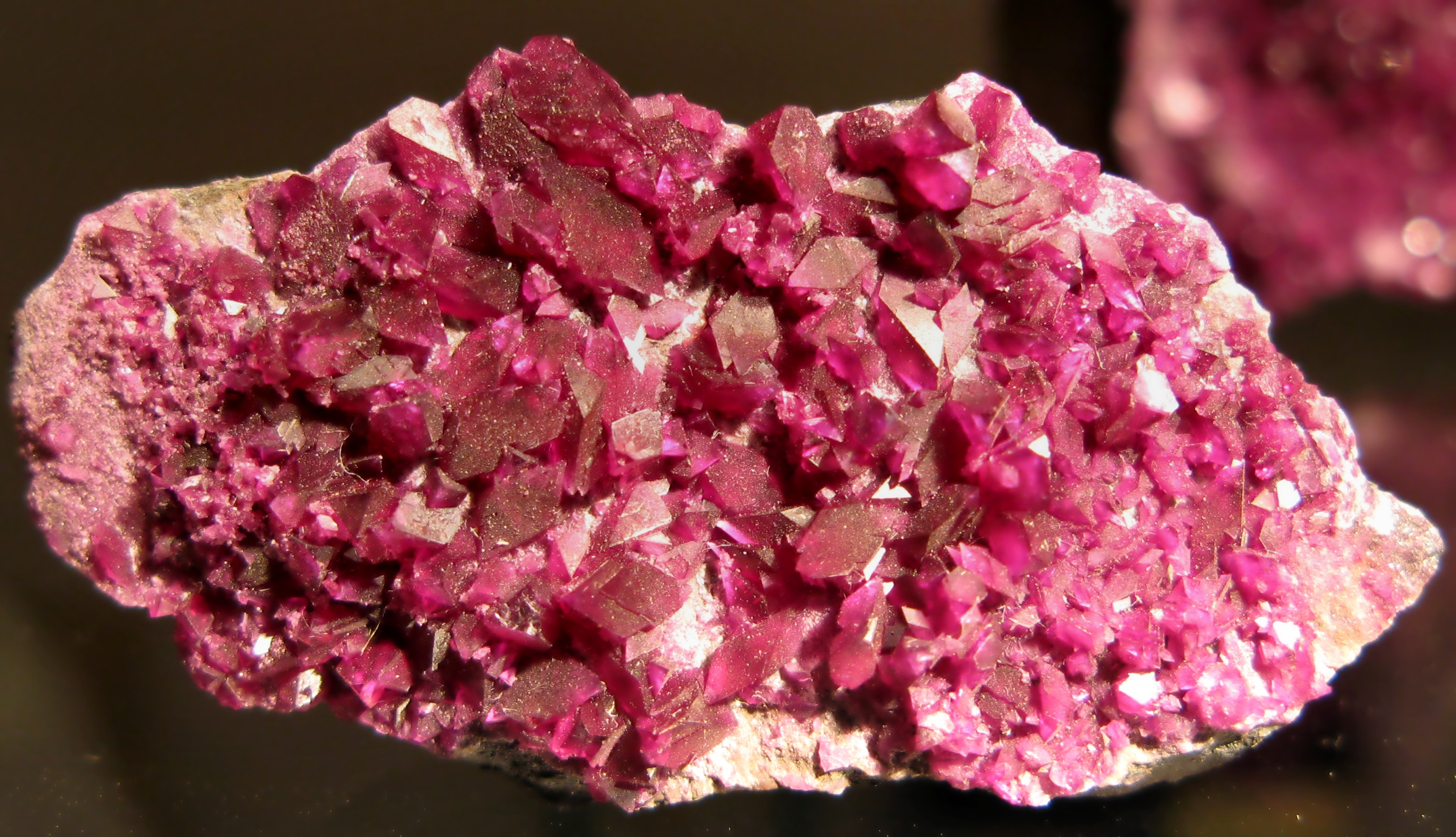 Kämmererite, variety of Clinochlore from Erzurum, East-Turkey